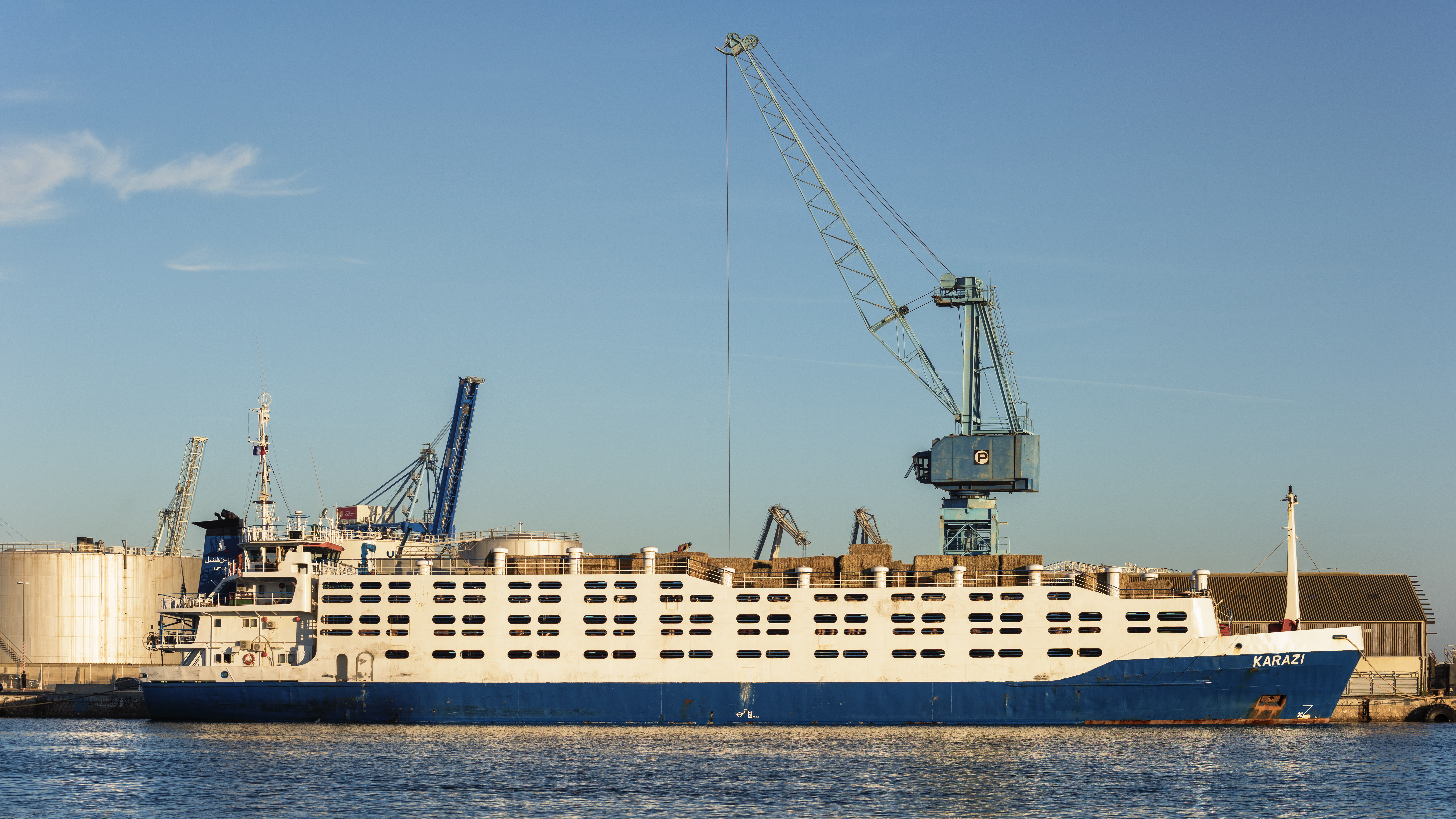 KARAZI (ship, 1983), in the harbour of Sète - Hérault, France